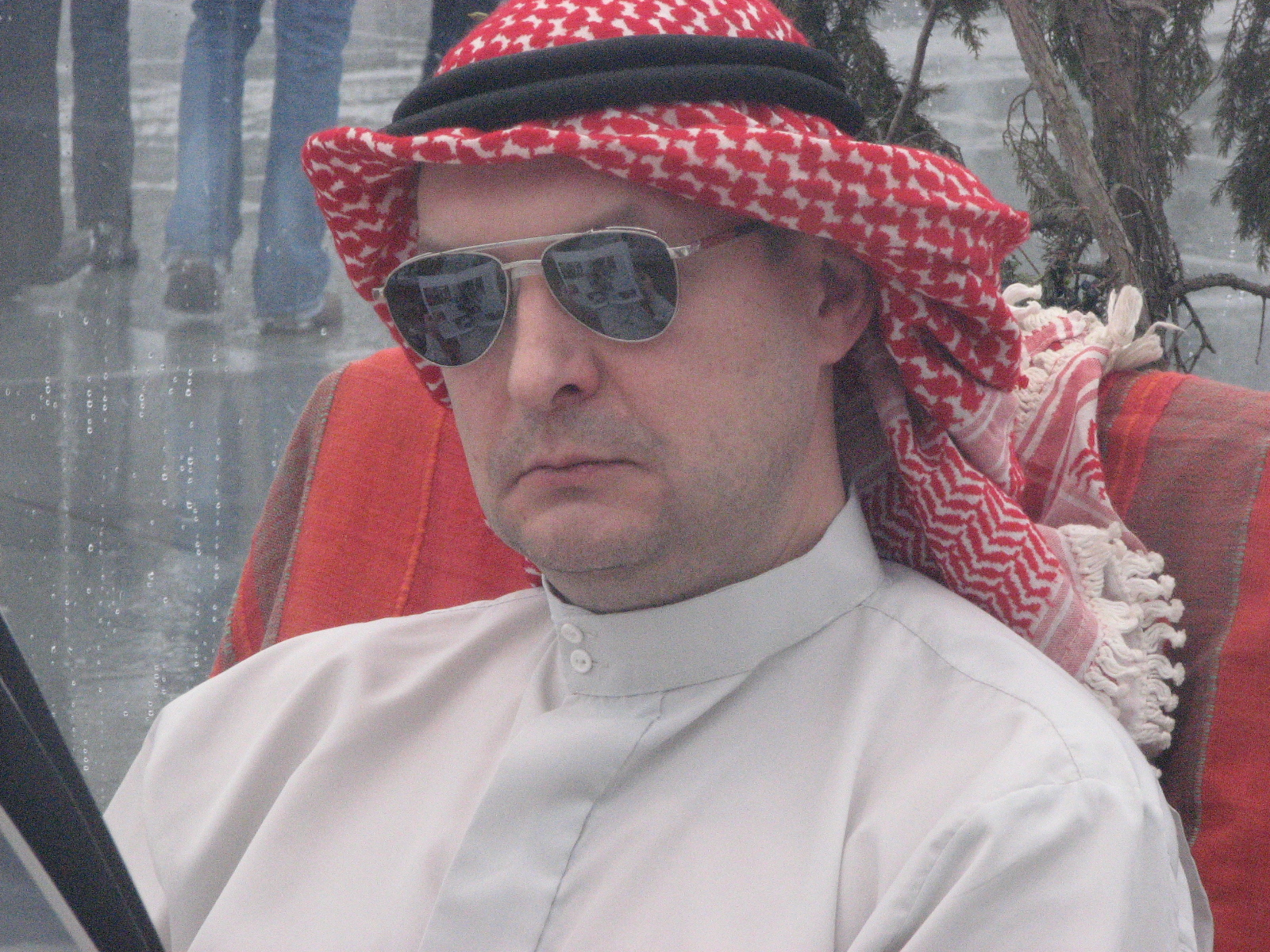 Raivo E. Tamm is Estonian actor.